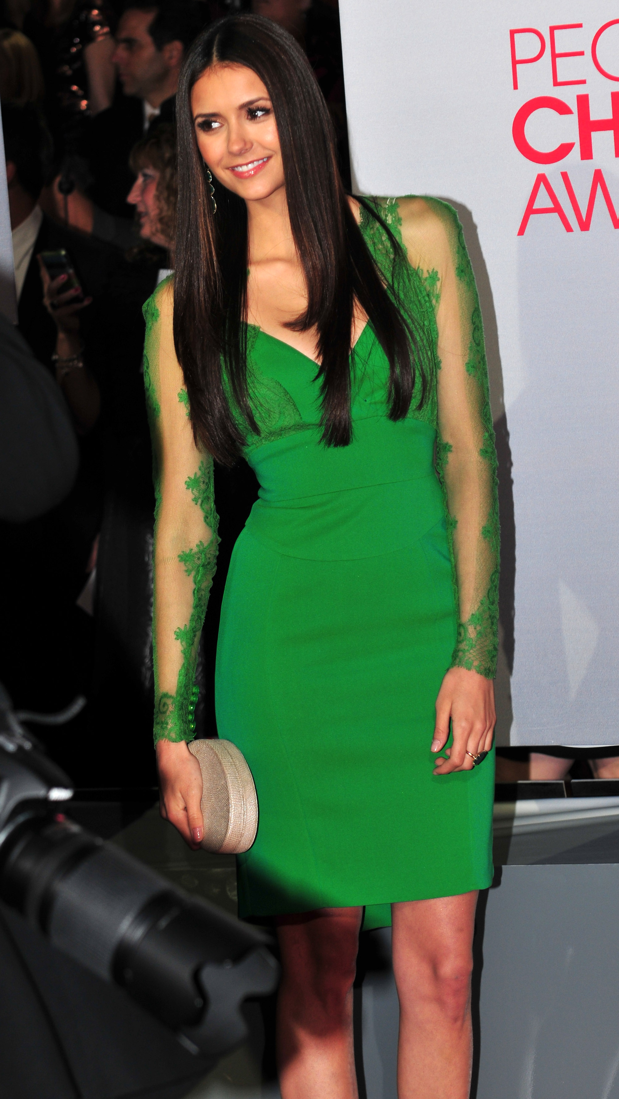 Nina Dobrev on the red carpet at the 38th People's Choice Awards on January 11, 2012, at the Nokia Theatre in Los Angeles, California. (JJ Duncan/ )